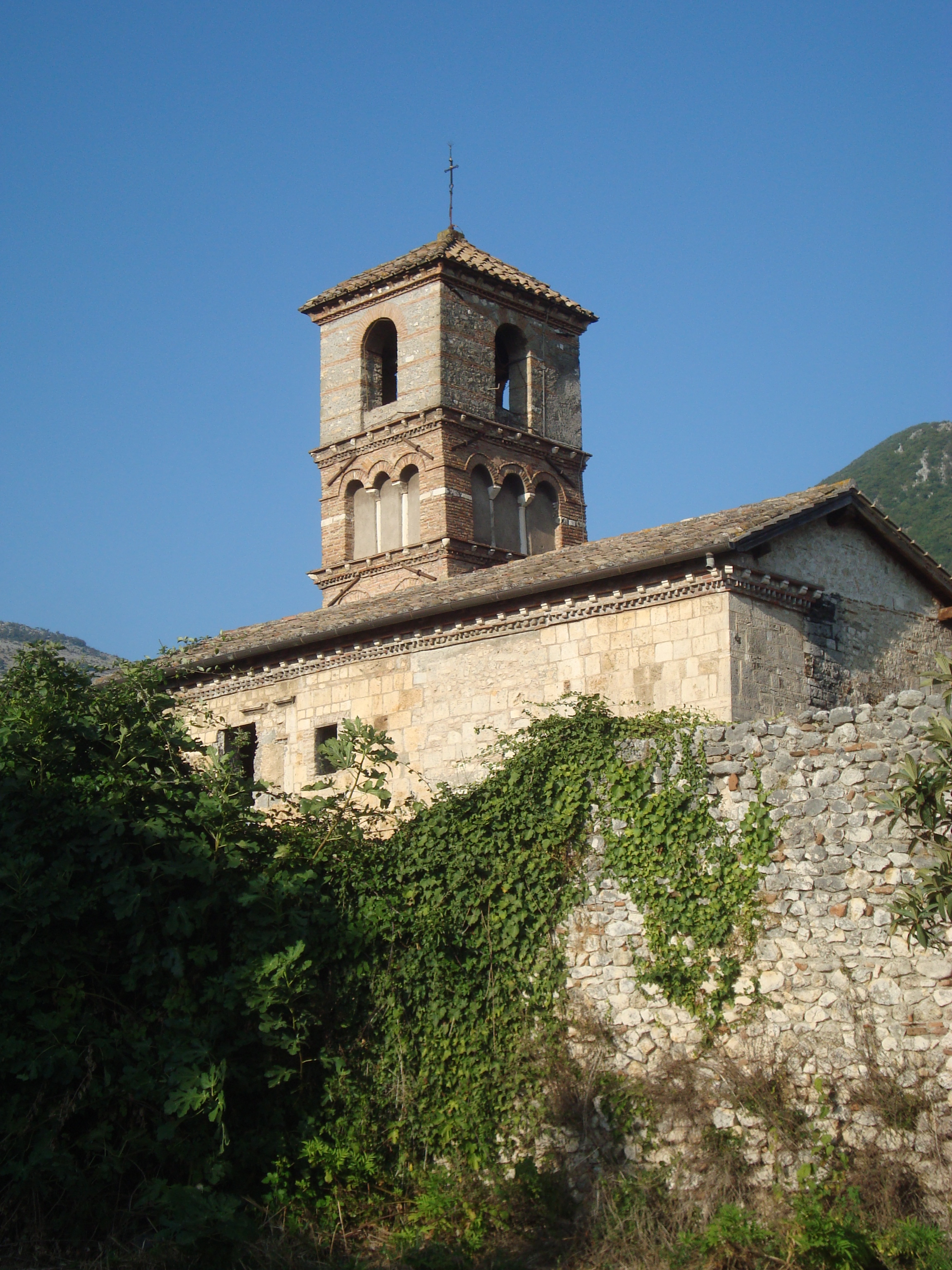 Backside of the church Santa Maria in Marcellina, Lazio, Italy